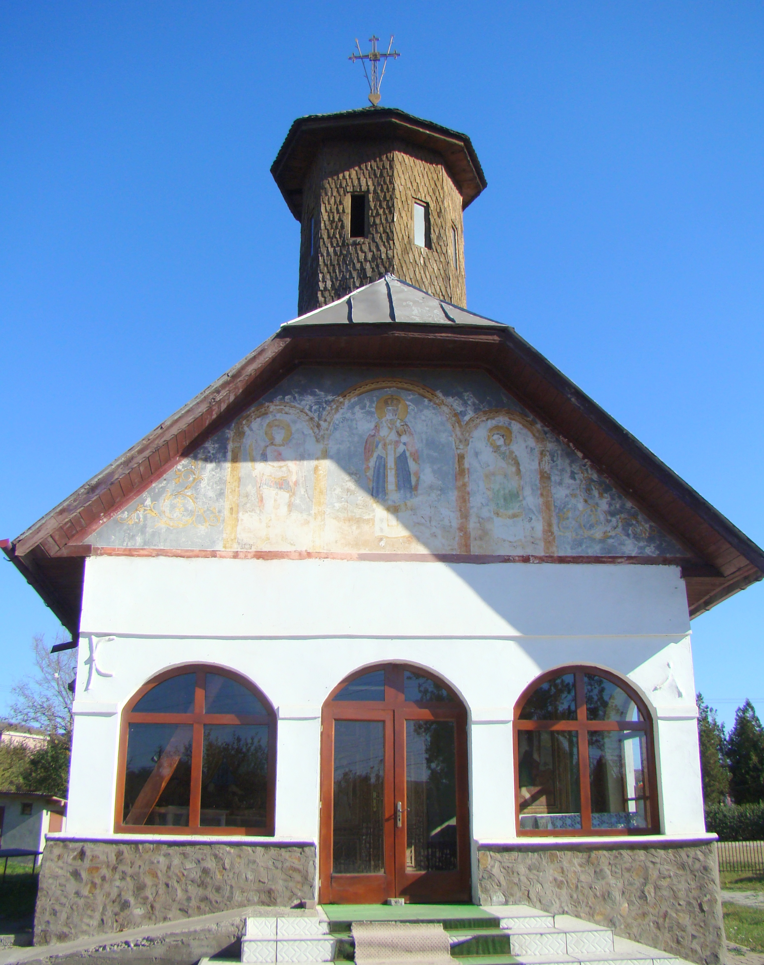 Wooden church in Mătăsari, Gprj county, Romania